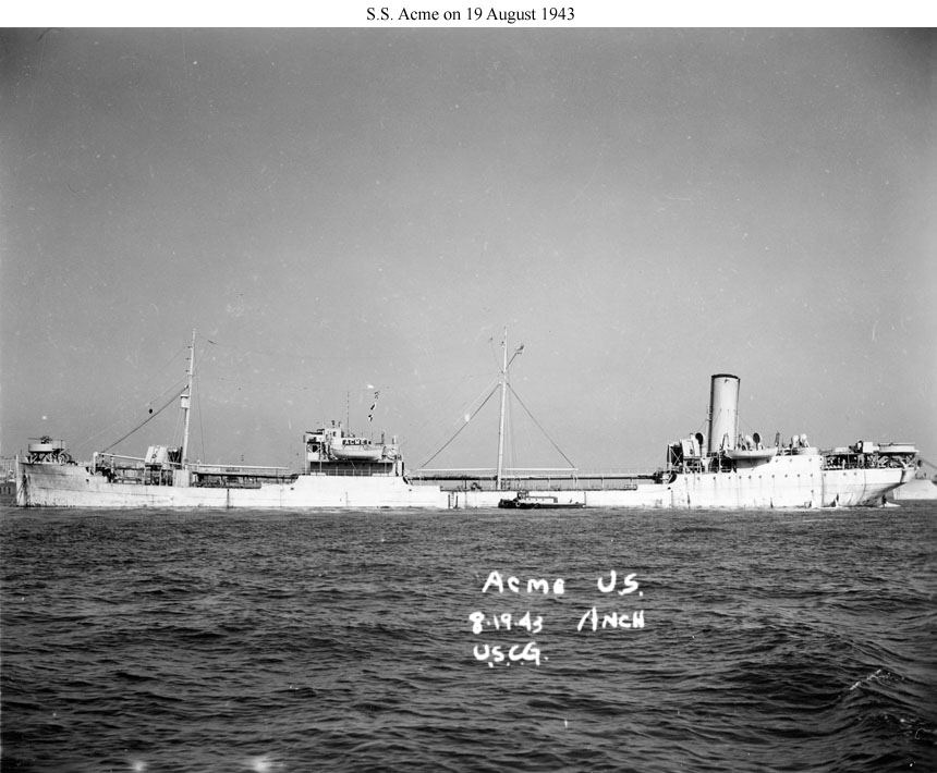 SS Acme at anchor, 19 August 1943, location unknown. US National Archives, RG-19-LCM, Photo No. Unknown, a US Coast Guard photo now in the collections of the US National Achieves